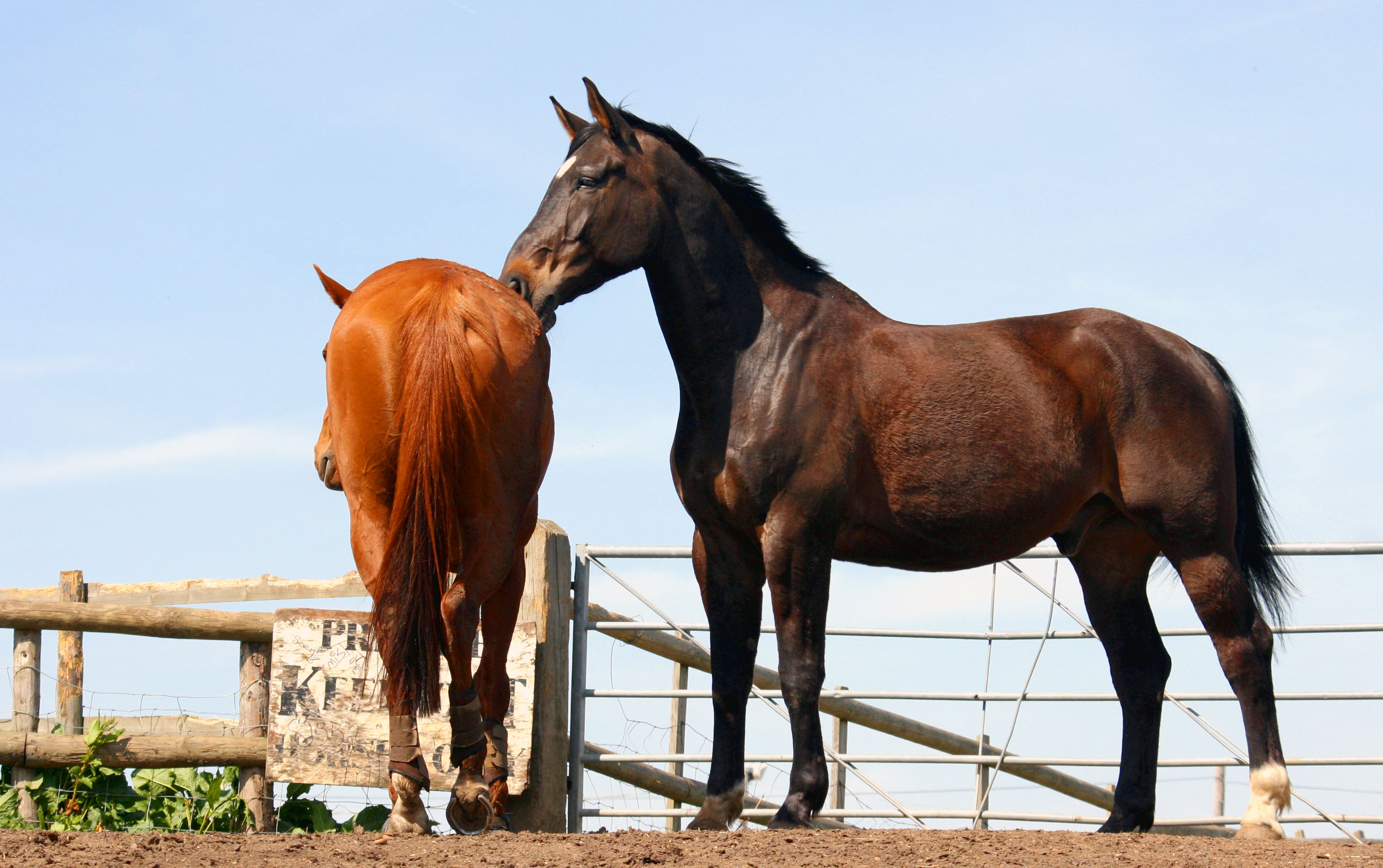 Horses - The Chase - Nature Reserve, Romford, London, England - Saturday April 26th 2008.